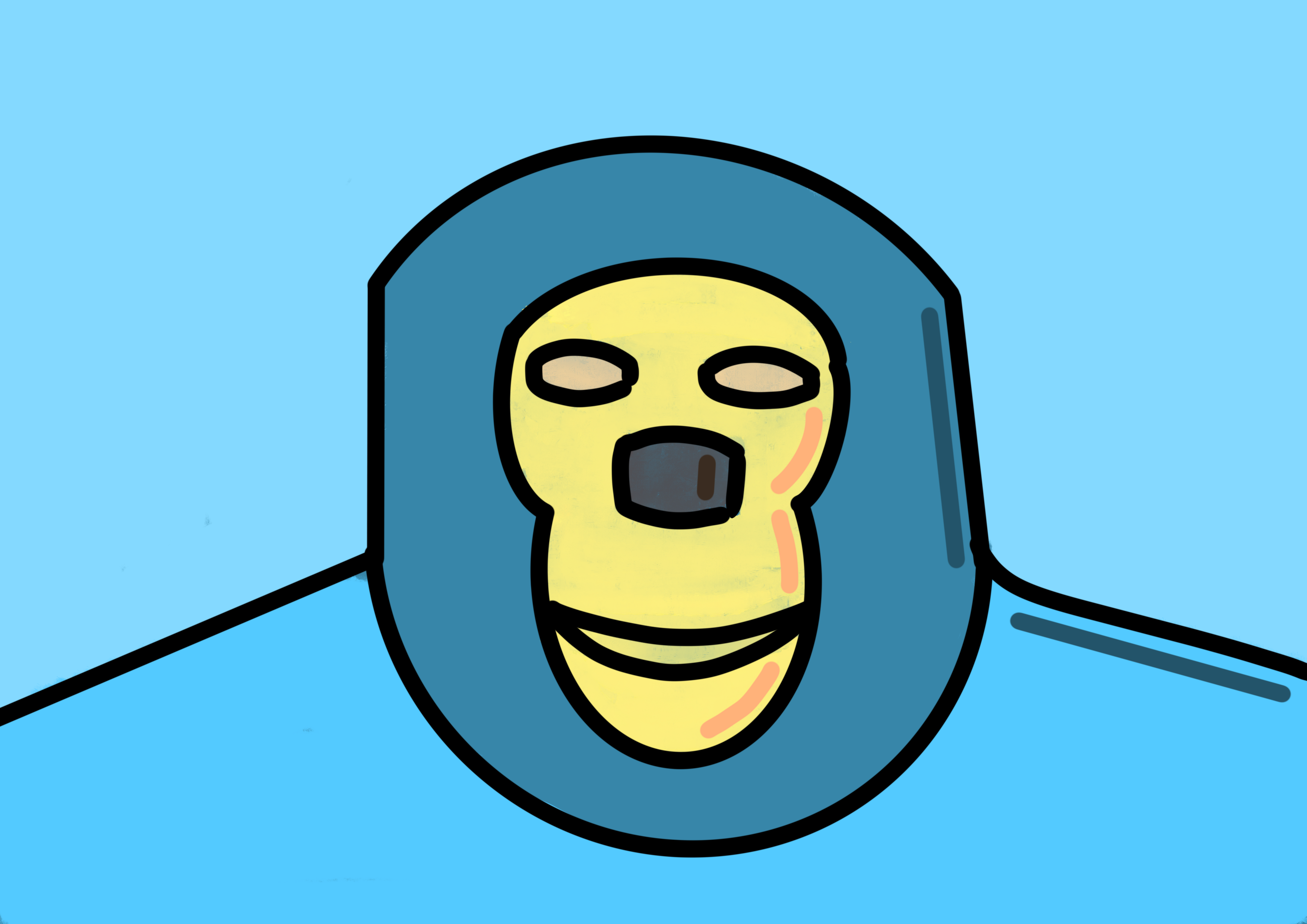 Reference representation of Mexican Lucha Libre Ke Monito wrestler.